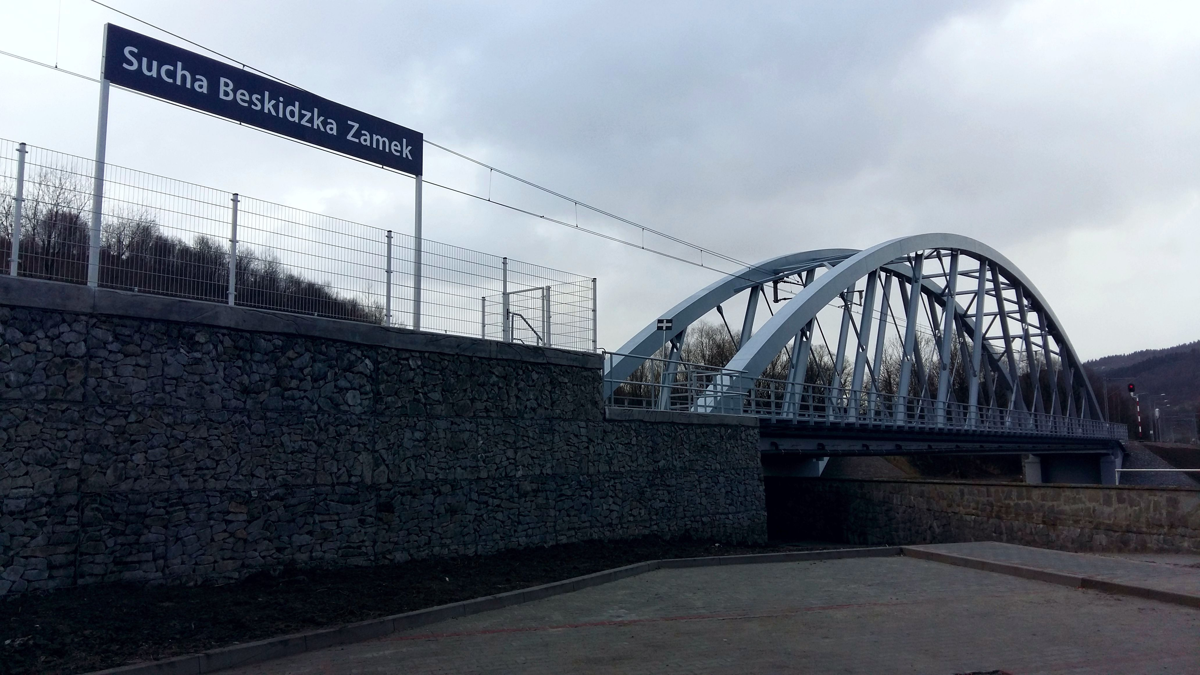 Sucha Beskidzka Zamek train stop and new railway bridge